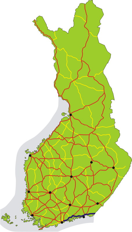 Map of the main road 7 in Finland, shown in dark blue. The other 1st class main roads (numbers 1–29) are red, 2nd class main roads (numbers 40–98) yellow. Black dots show the 12 biggest urban areas.